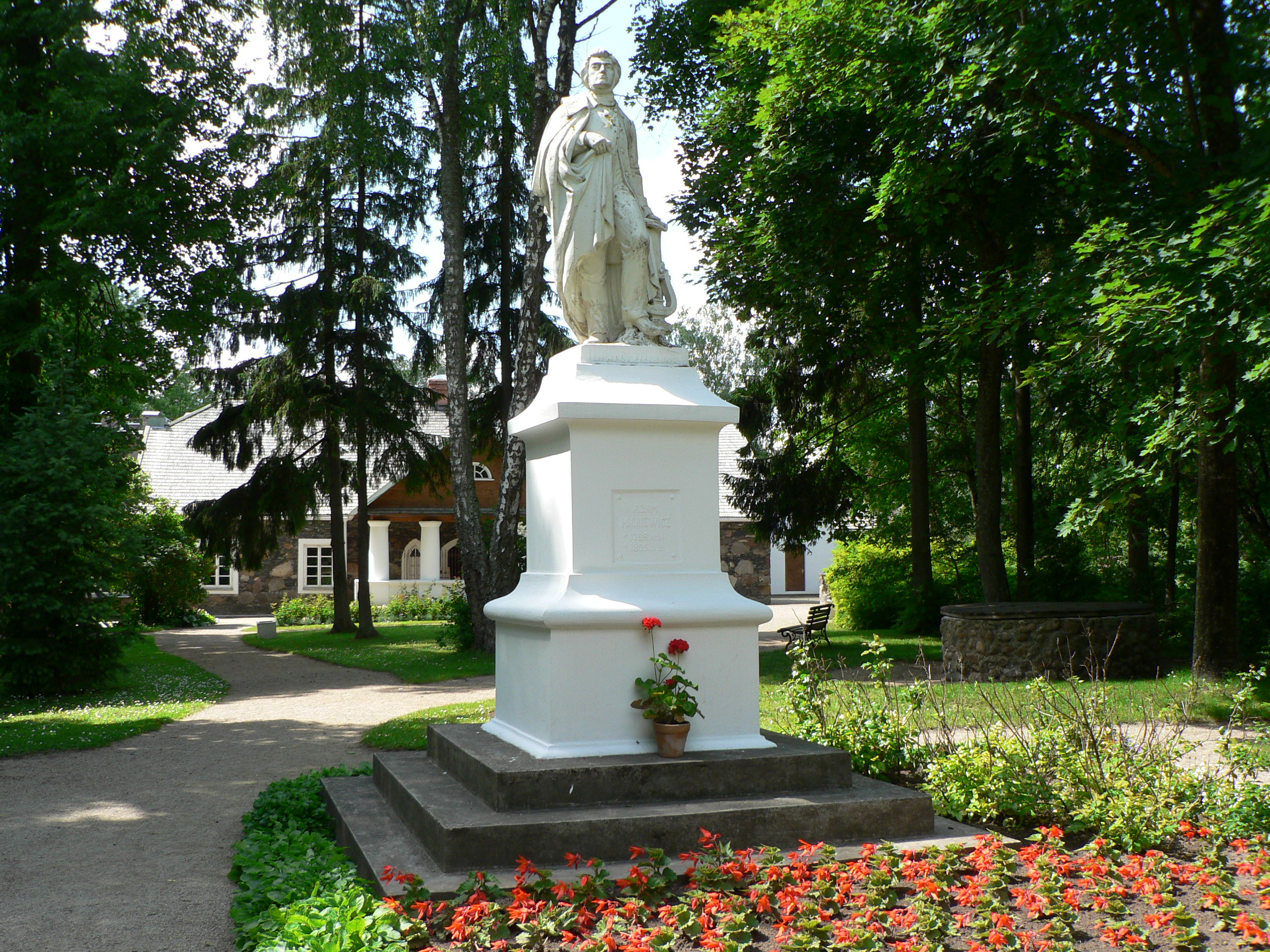 Adam Mickiewicz Monument in Burbiškis (district municipality of Radviliškis), Lithuania. Remains of the palace in the background.